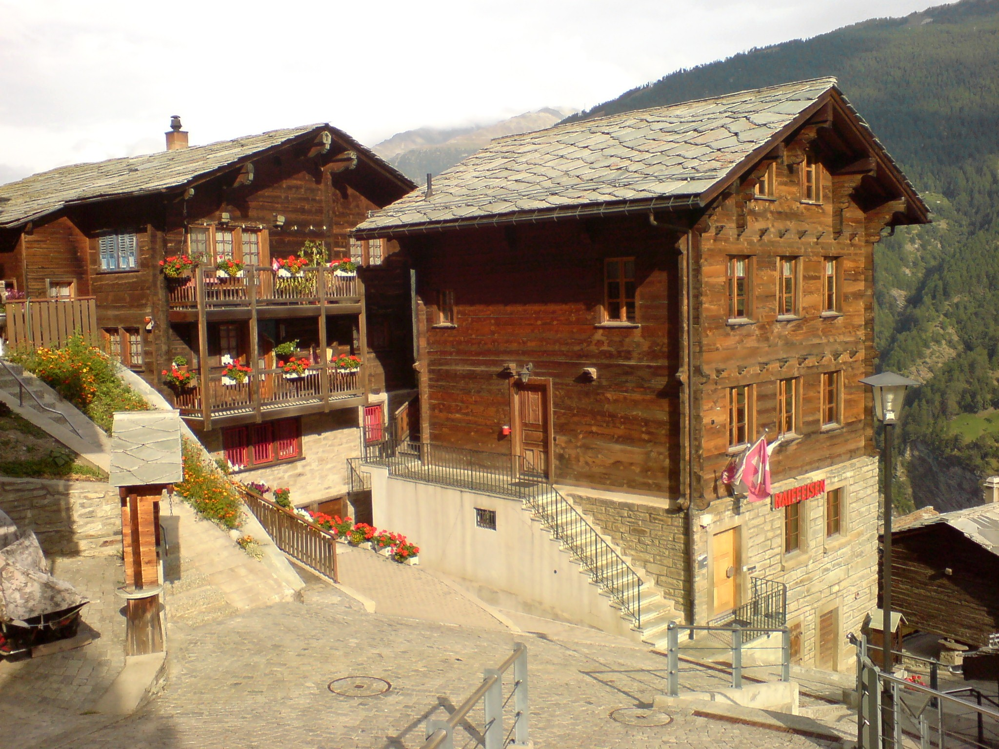 Center of Embd, Valais